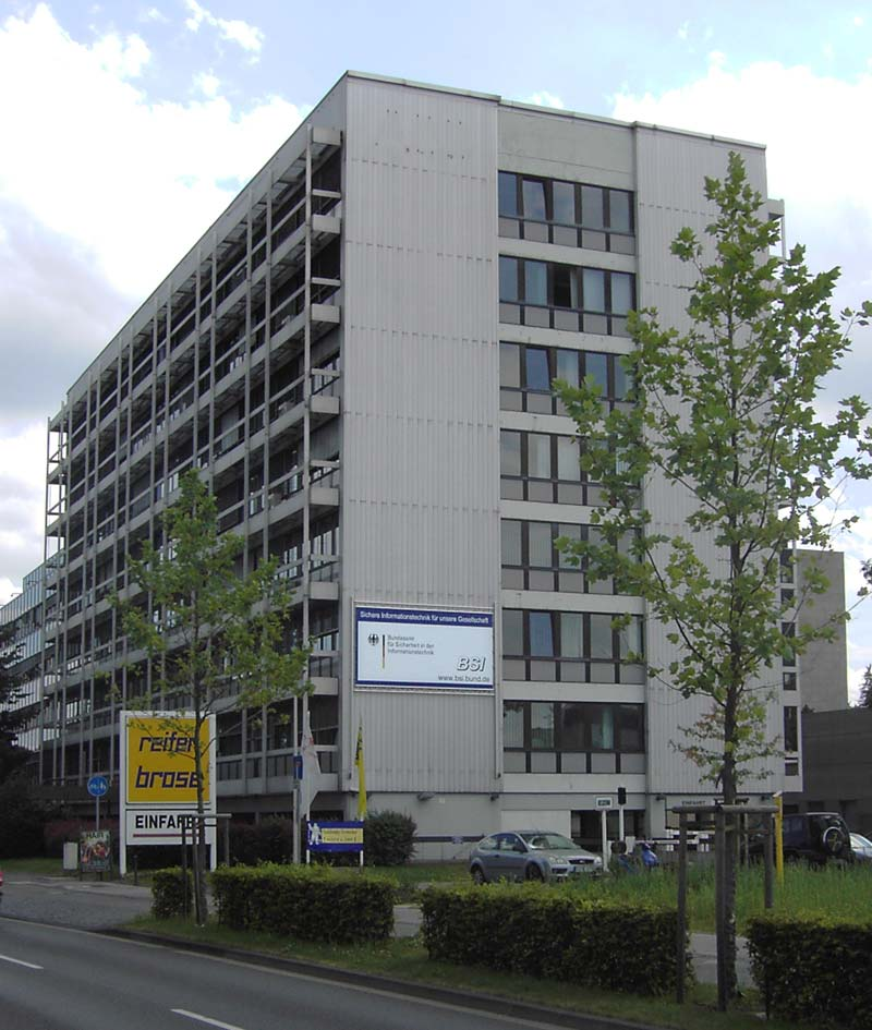 Federal office for Information Security in Bonn. The building is located in the city district Friesdorf near to the Junction between the Federal motorway 562 and the Federal road 9 with an urban railway stop above.